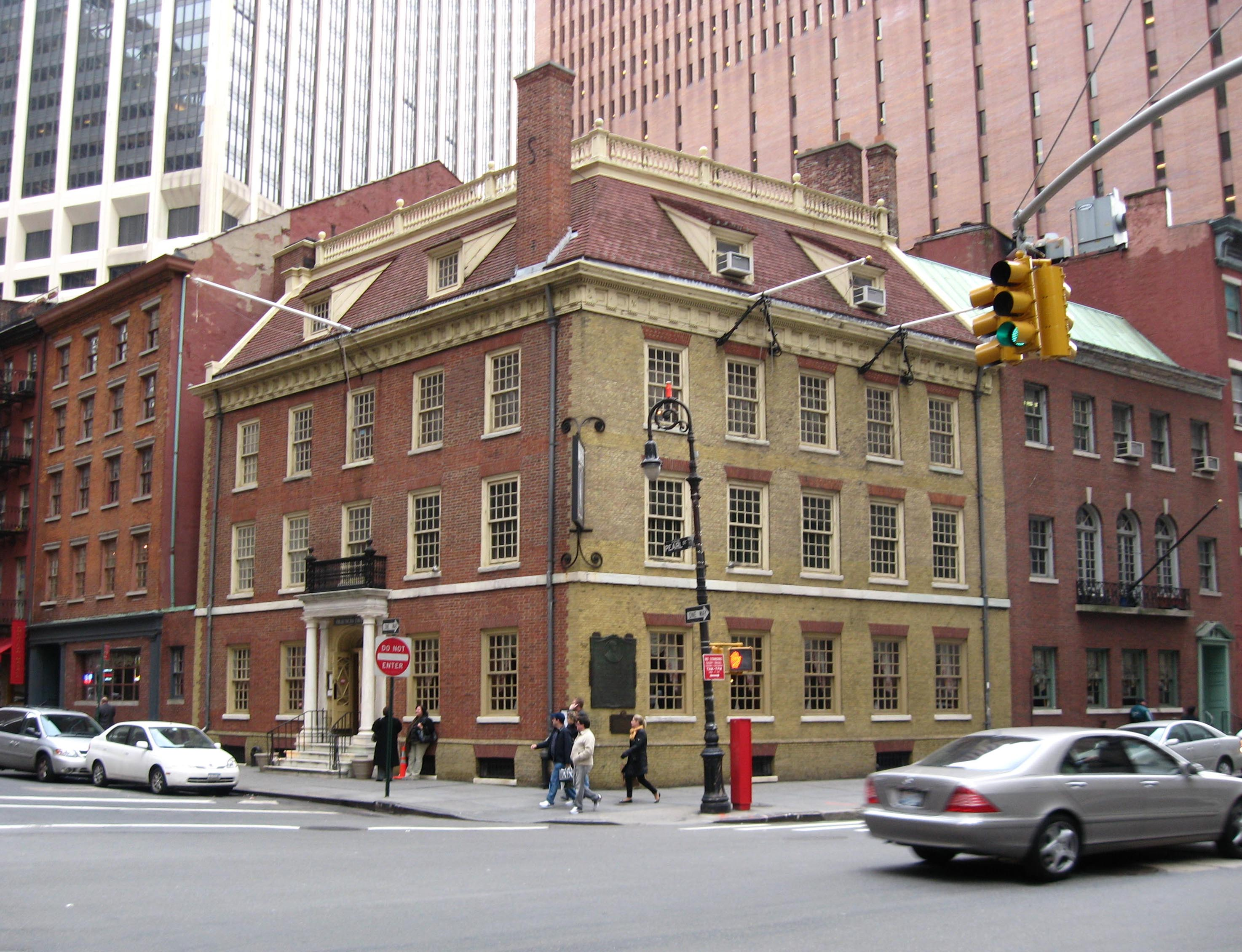 Fraunces Tavern on Broad Street on a cloudy afternoon in early spring. Bishop crook lamppost